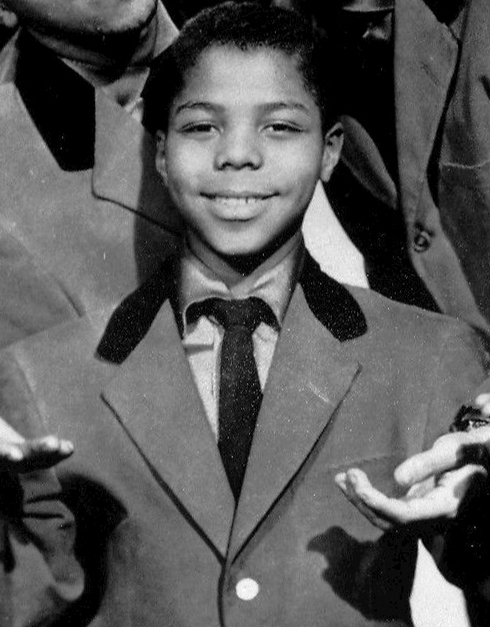 Photo of Frankie Lymon with the 1950s group, Frankie Lymon and The Teenagers.